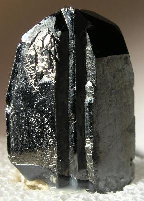 Cassiterite, Wodginite Locality: Lavia Jabuti, Galileia, Minas Gerais, Brazil Size: thumbnail, 2.3 x 1.6 x 0.6 cm Wodginite epitaxial on Cassiterite Superb, razor-sharp, and lustrous epitaxial growth of Wodginite over Cassiterite. Aesthetic, rare, and world-class. This is an important specimen from a small find, of the early 1980's , that really surprised people. These crystals consists mainly of wodginite that has grown epitaxially over a decaying core of cassiterite that is now barely present at all. The wodginite from this find is superb - unusually lustrous and sharp compared oto the mineral from other localities. These are VERY hard to come by. I am told that the pocket was only the size of a basketball and the find limited to some dozens of specimens. This one, at about an inch, is one of the larger pieces and is quite significant; not surprising given Marilyn's proximity to Richard Gaines who analysed them, and handled most of them at the time. 2.3 x 1.6 x 0.6 cm